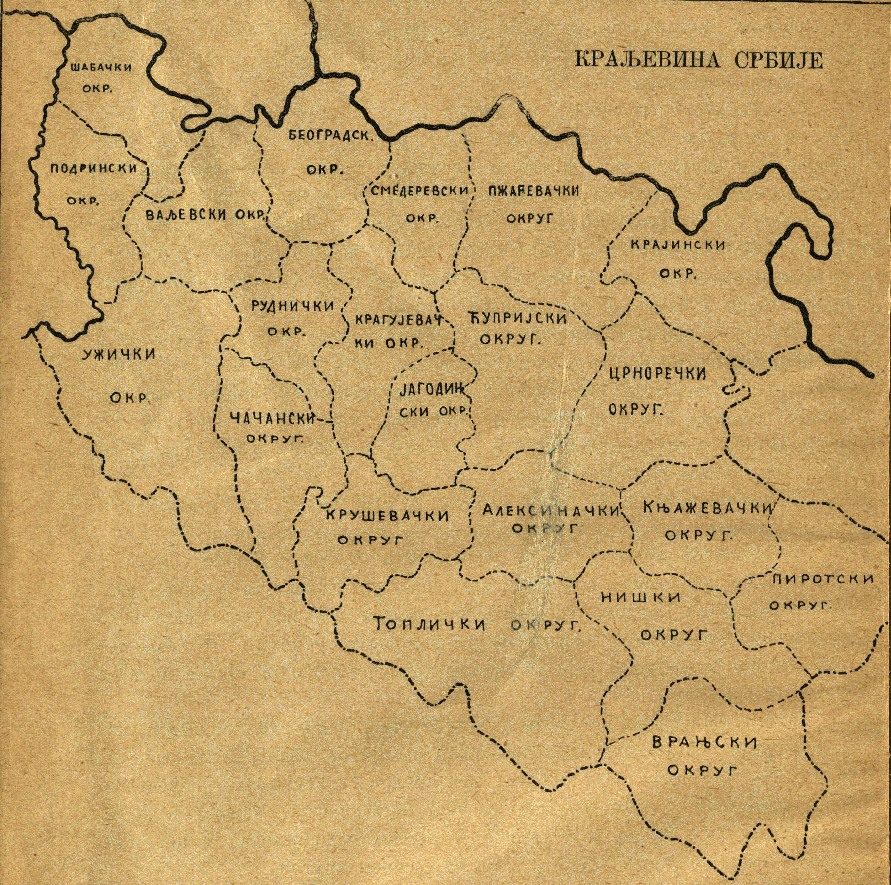 Districts of Serbia 1900